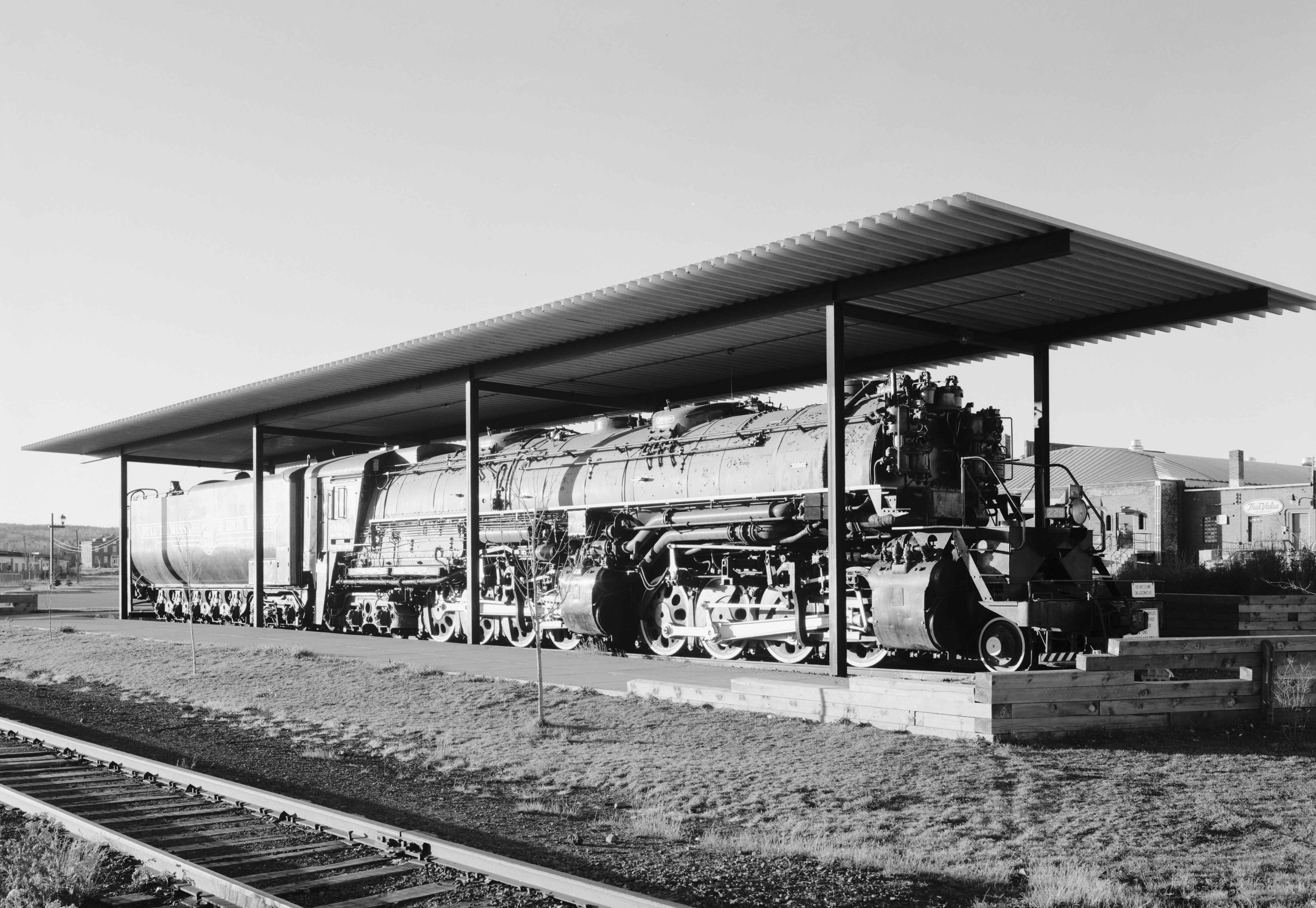 Duluth, Missabe and Iron Range Railway 2-8-8-4 ("Yellowstone" type) articulated steam locomotive #229, as preserved at Two Harbors, Minnesota, USA.